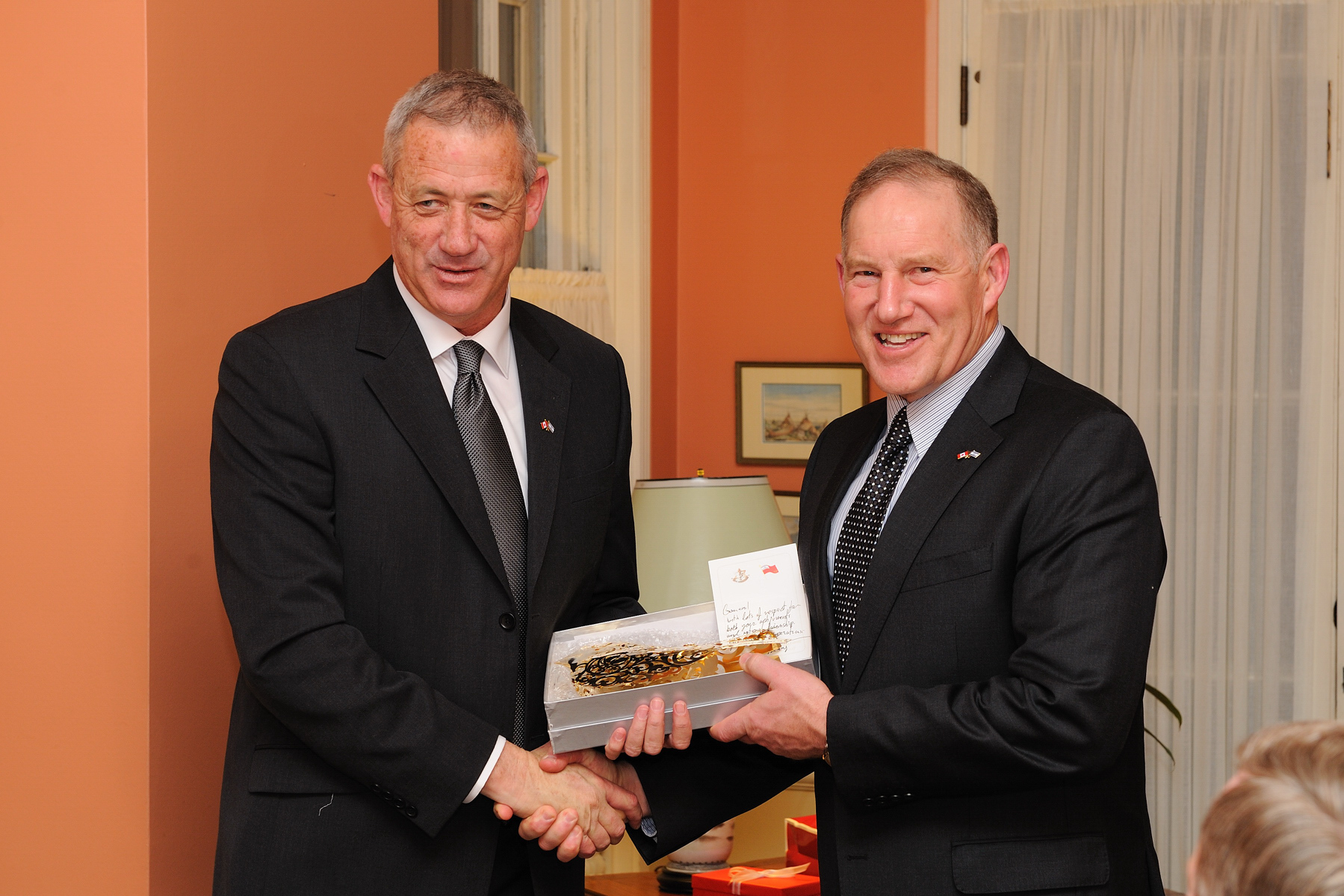 March 15, 2012 IDF Chief of Staff, Lt. Gen. Benny Gantz, met today with the Canadian Chief of Defense Forces, General Walter Natynczyk, during his trip to Canada. The Israel Defense Forces Facebook The Israel Defense Forces blog Follow us on Twitter